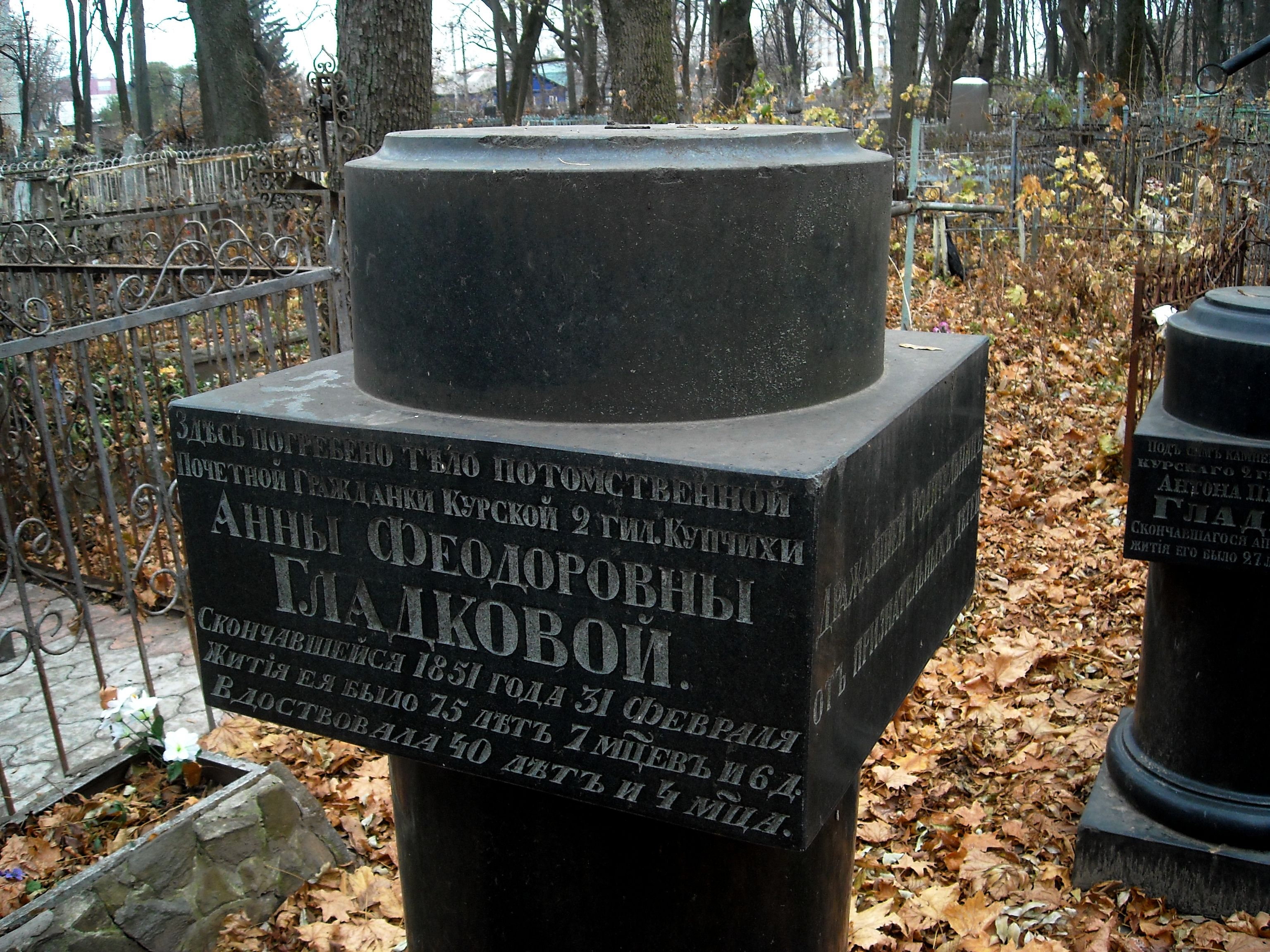 Gravestone in Nikitsky Cemetery (K. Marx street) in Kursk, Russia, shows the date of death for merchant Anna Gladkova as February 31, 1851.